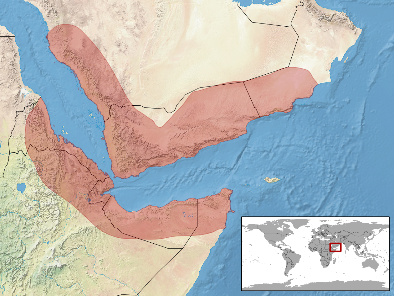 geographic distribution of Hemidactylus yerburyi syn Hemidactylus yerburii (Native: Djibouti; Eritrea; Ethiopia; Oman; Saudi Arabia; Somalia; Yemen)